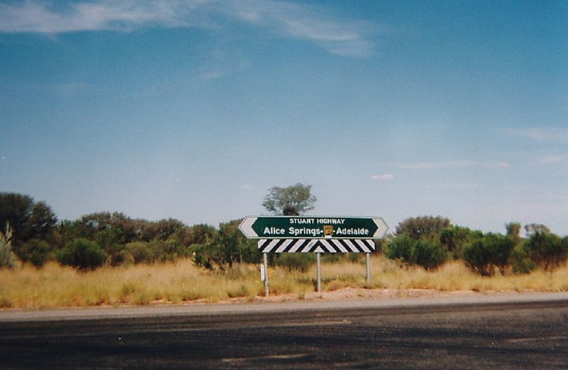 The Main Road through the Centre